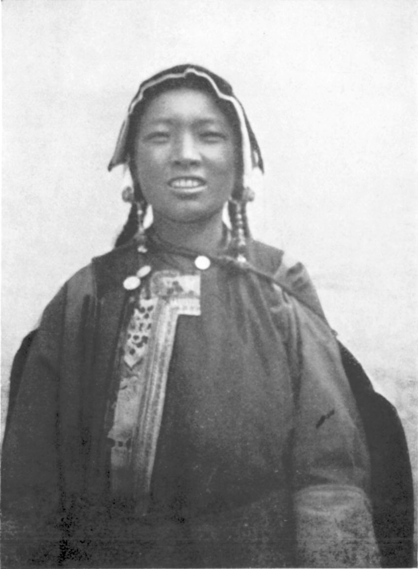 A CHUNG-TIEN TIBETAN GIRL IN HOLIDAY DRESS. Note the large ear-rings.